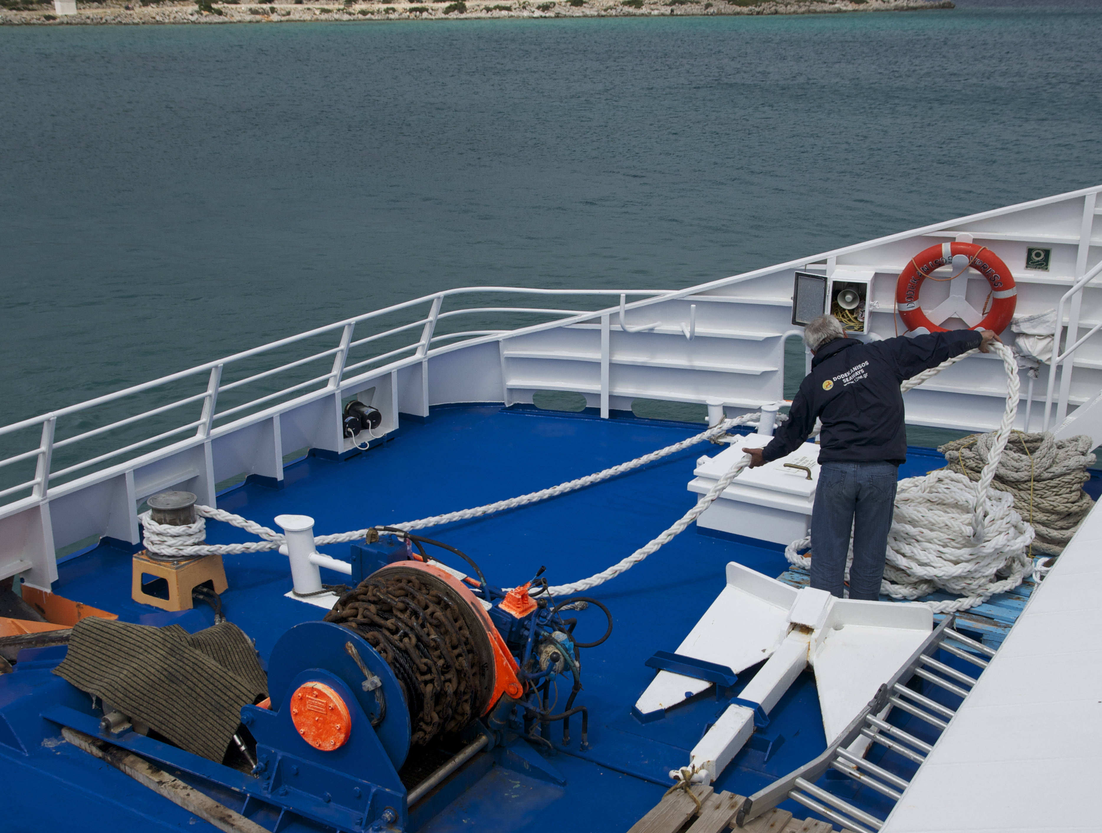 a sailor at work, island of Symi, Greece.